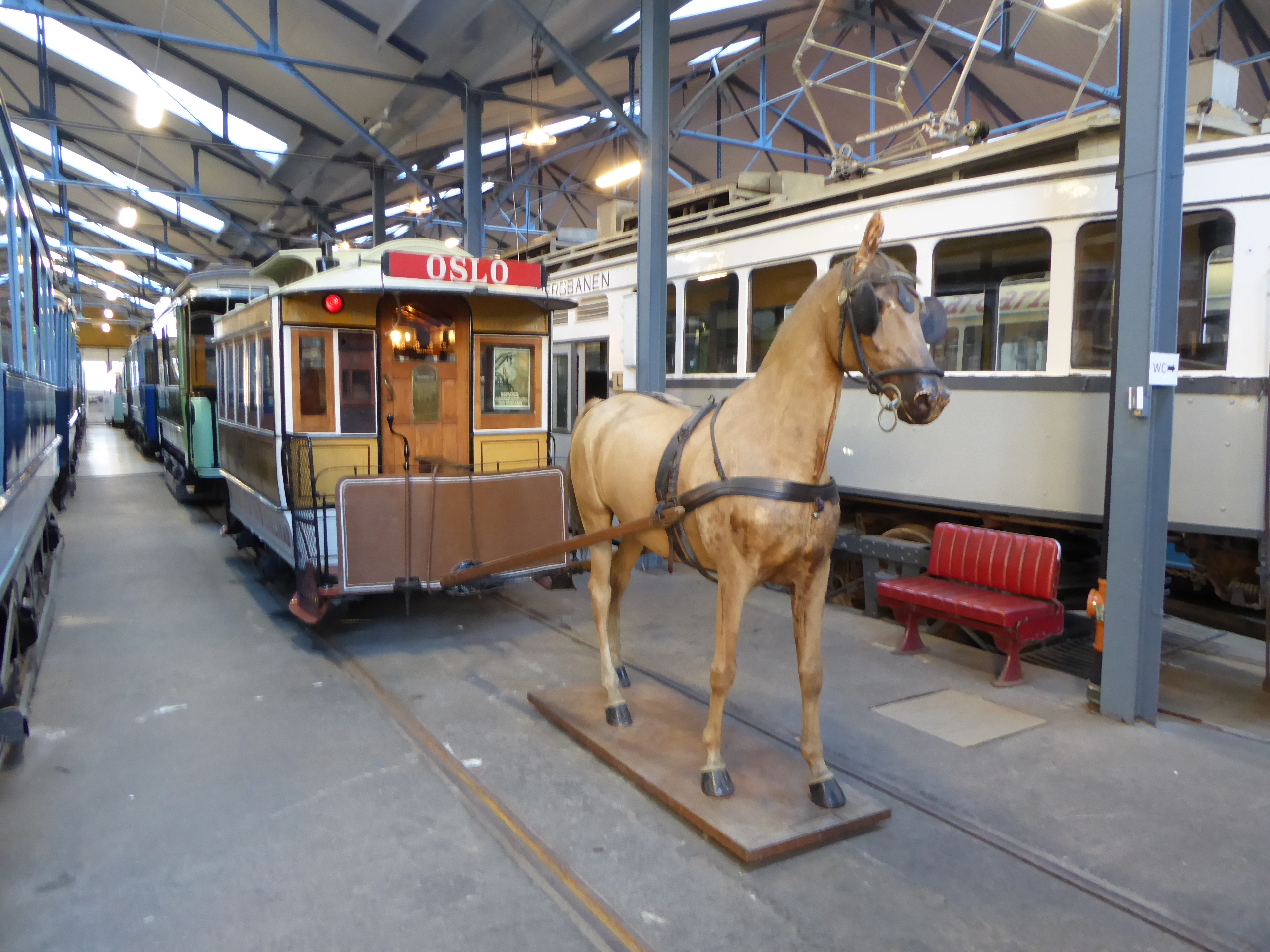 The horse tram KSS 6 of Kristiania Sporveisselskab from 1875 at Sporveismuseet in Oslo.